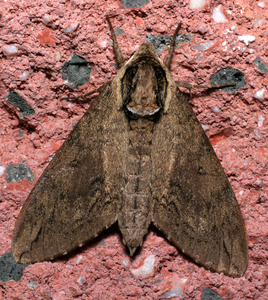 Catalpa Sphinx, Ceratomia catalpae, imago (adult), Durham, North Carolina, United States